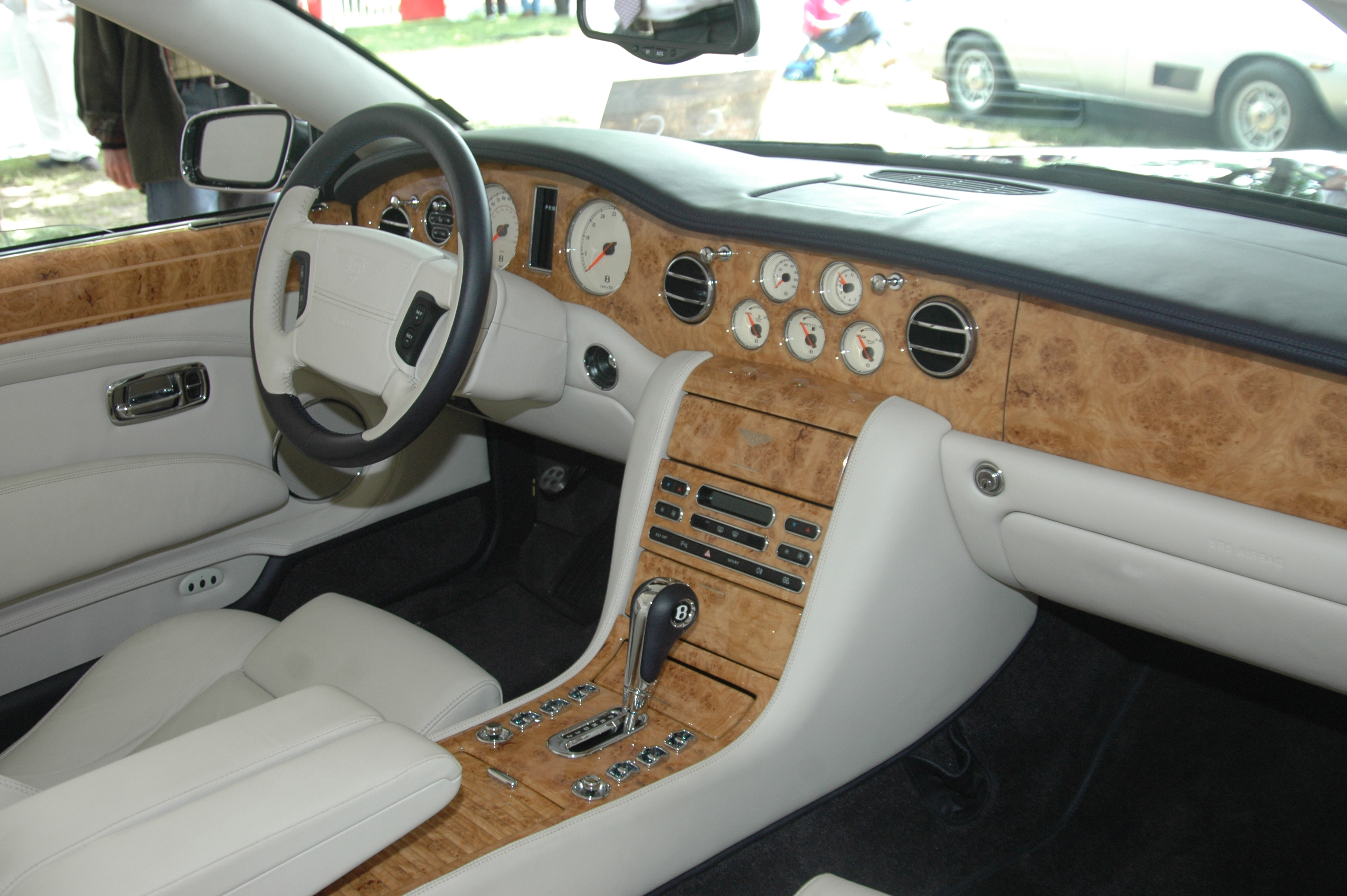 Interior shot of a 2006 Bentley Azure, photographed by Jagvar at the 2006 Greenwich Concours d'Elegance in Greenwich, CT.